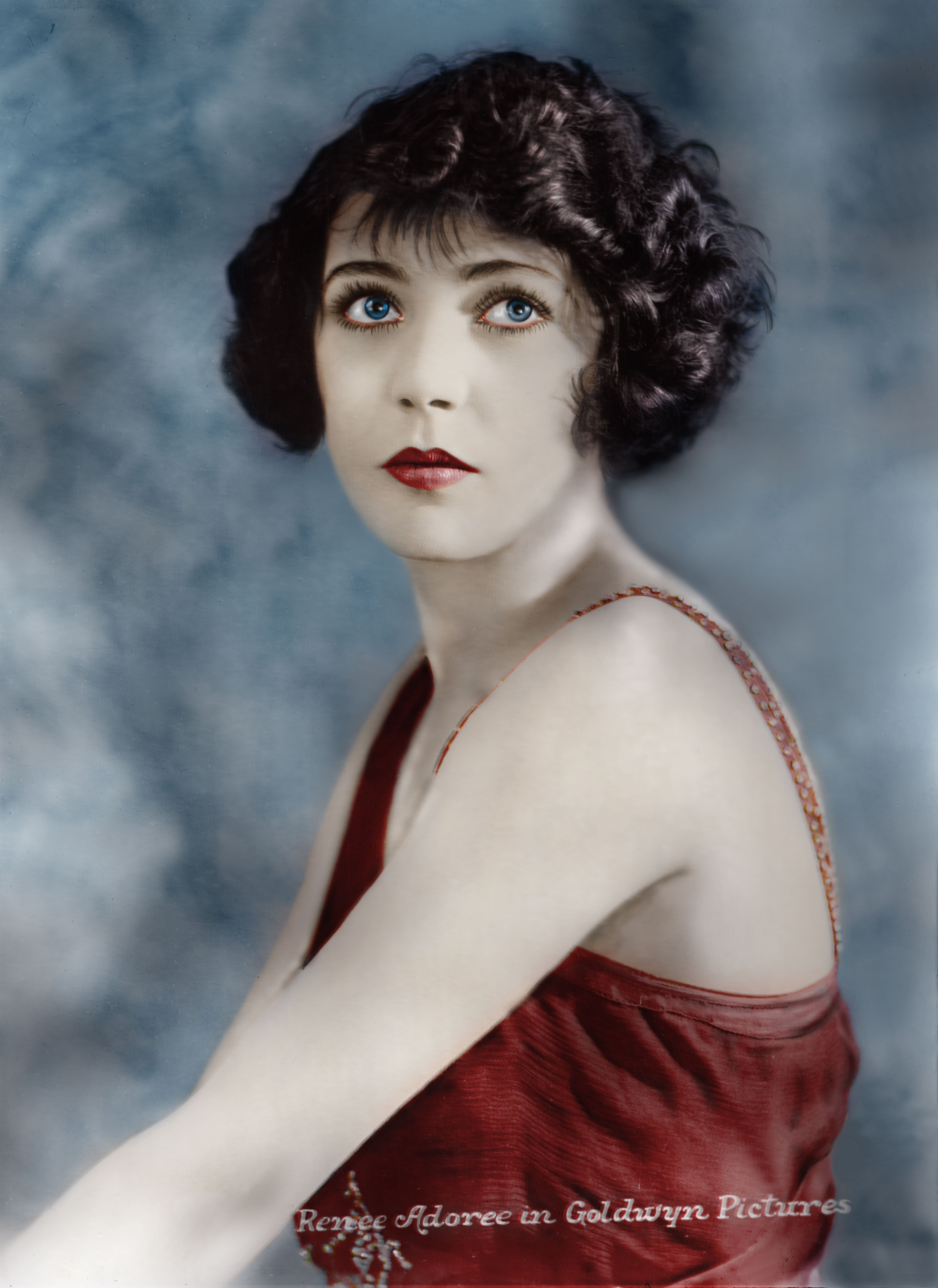 Renée Adorée in Goldwyn Pics. TITLE: Renée Adorée in Goldwyn Pics CALL NUMBER: LC-B2- 5491-9[P&P] REPRODUCTION NUMBER: LC-DIG-ggbain-32653 (digital file from original negative) RIGHTS INFORMATION: No known restrictions on publication. MEDIUM: 1 negative : glass ; 5 x 7 in. or smaller. CREATED/PUBLISHED: [no date recorded on caption card] CREATOR: Bain News Service, publisher. FORMAT: Glass negatives. CONTROL #: ggb2006008066